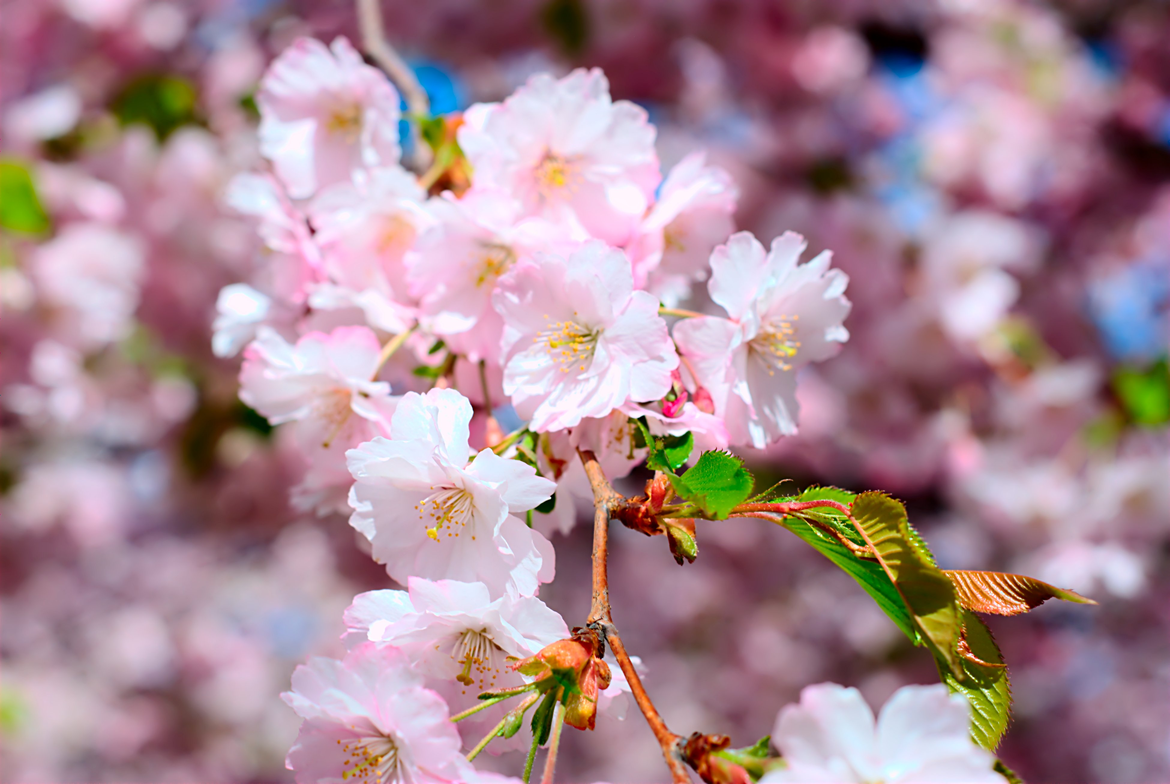 Flowers of Japanese cherry (Prunus serrulata). Photo taken in Lumaparken, Stockholm.